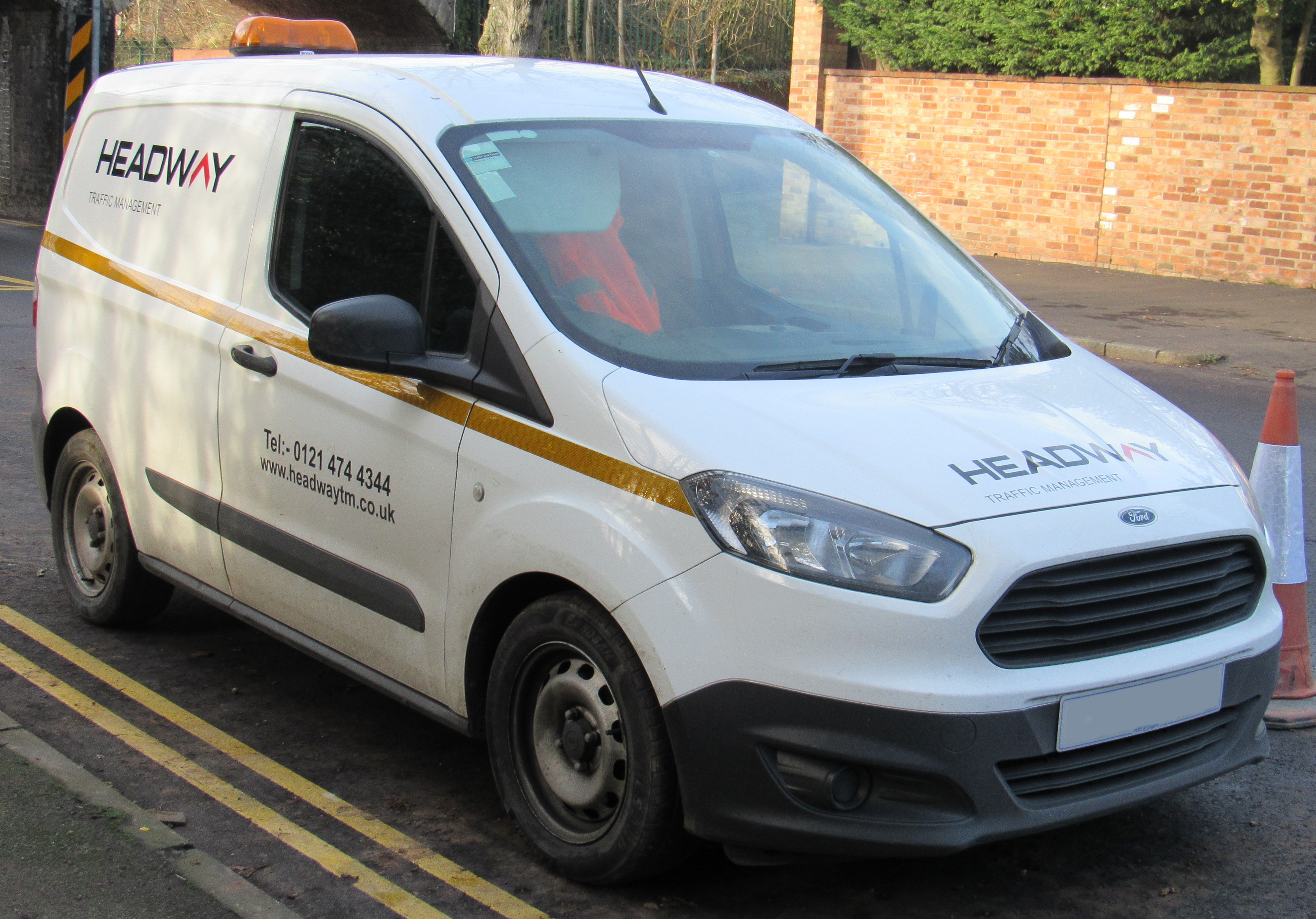 2015 Ford Transit Courier Base TDCi 1.5 Front (Headway Trafic Maintenance) Taken in Leamington Spa